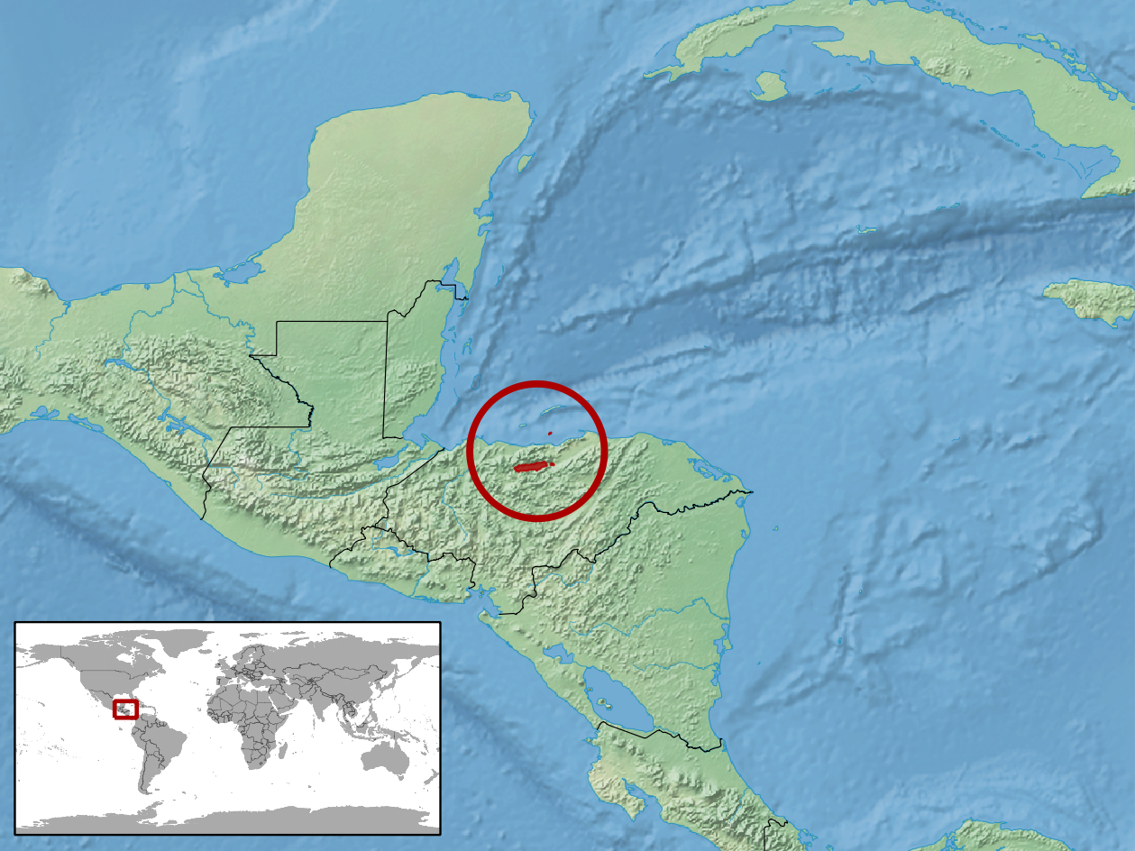 geographic distribution of Ctenosaura melanosterna (Native: Honduras (Honduran Caribbean Is., Honduras (mainland)))